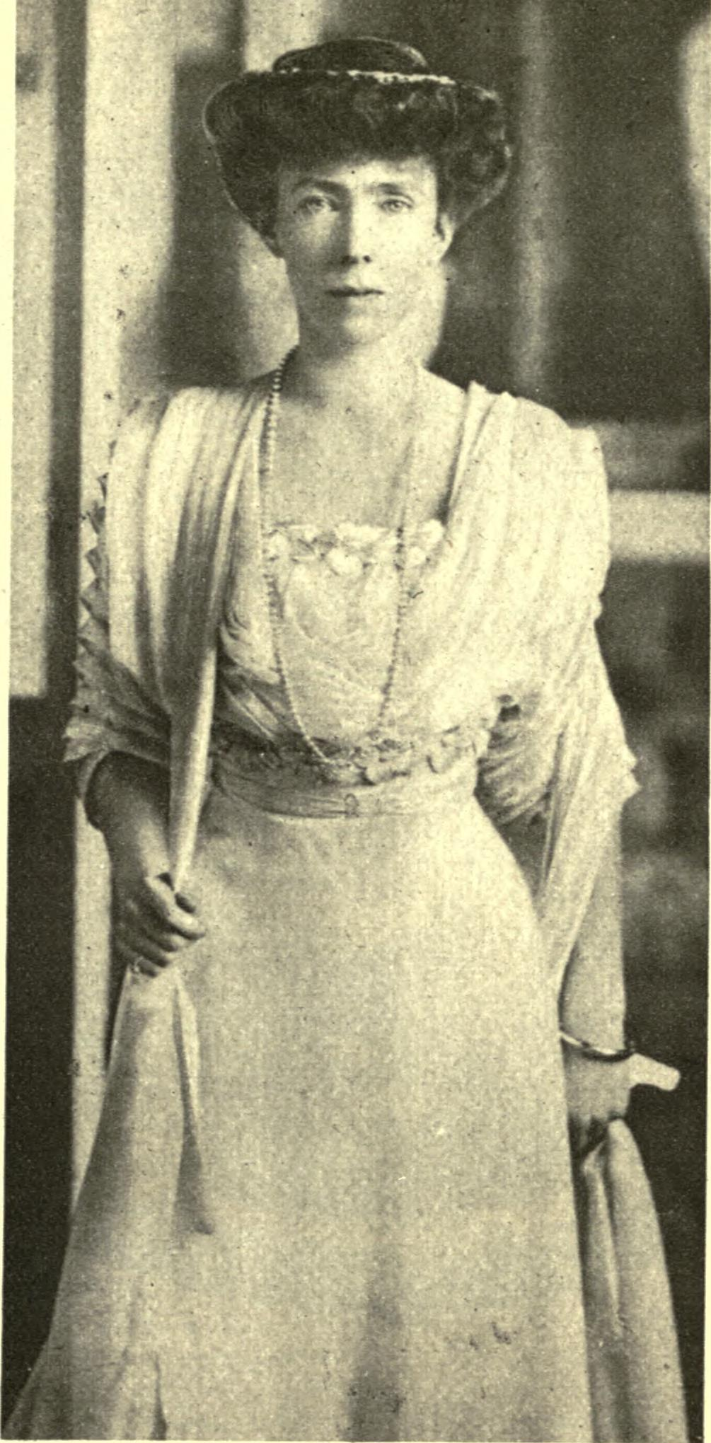 Elisabeth, Queen of the Belgians